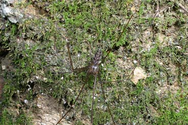 male Smeringopus pallidus from Okinawa.